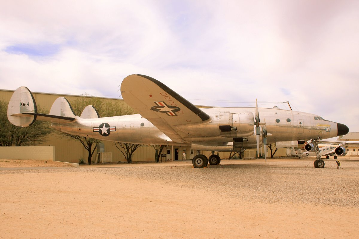 Lockheed VC-121A Constellation 48-0614 Columbine was the personal aircraft of Dwight D. Eisenhower when he was Commander Supreme Headquarters Allied Powers Europe in the early 1950s. It is now preserved at the Pima Air and Space Museum in Tucson, Arizona.